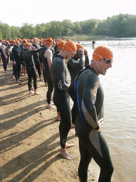 Swimmers preparing for the swim in the XTERRA off road event